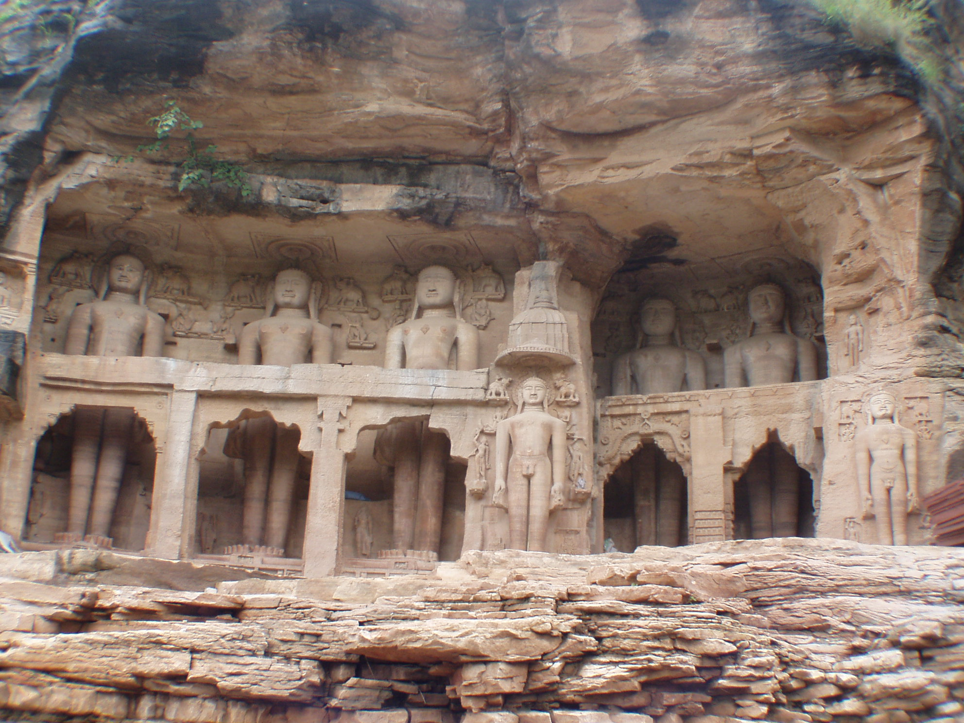 gopachal parvat parbat gwalior fort hill clif rock carvings reliefs madhya pradesh thirthankaras jain sculptures thirtankar thirtankaras tirthankar tirthankaras Detail of Ek Patthar ki Baori (aka Gopachal Parwat) where artisans painstakingly carved twenty six giant statues and many other smaller images of Jain Tirthankars (holy men of Jainism) in the slopes of the rocky promontory where Gwalior Fort stands.